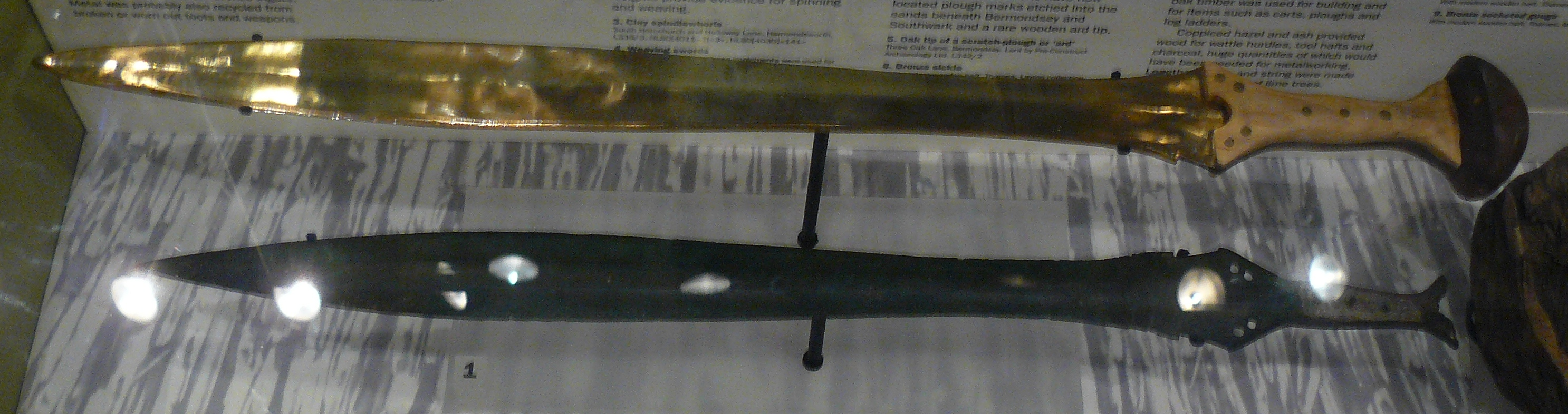 Bronze sword from the Thames, Teddington Lock, ca. 900-700 BC (above: replica of the sword with wodden hilt plates and pommel)